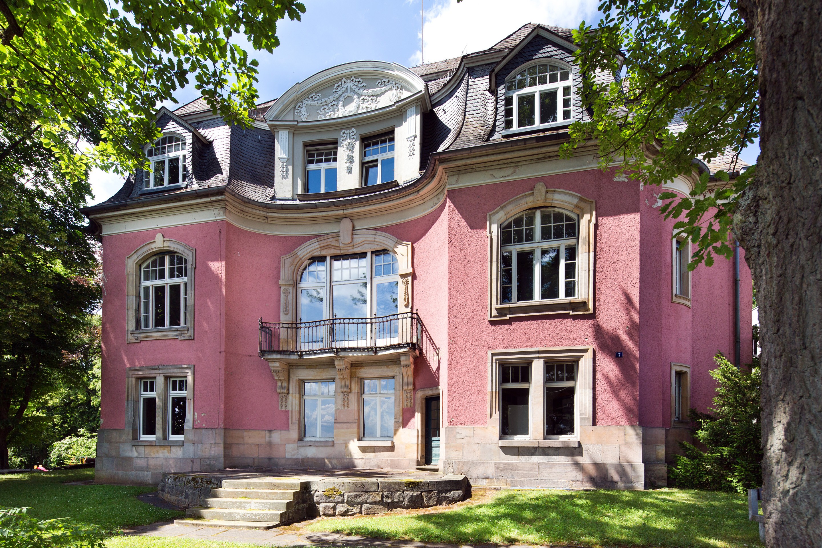 Herder Institute in Marburg/Germany, Villa Hensel